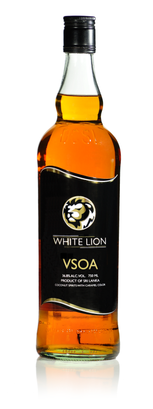 An export bottle of Sri Lankan coconut arrack